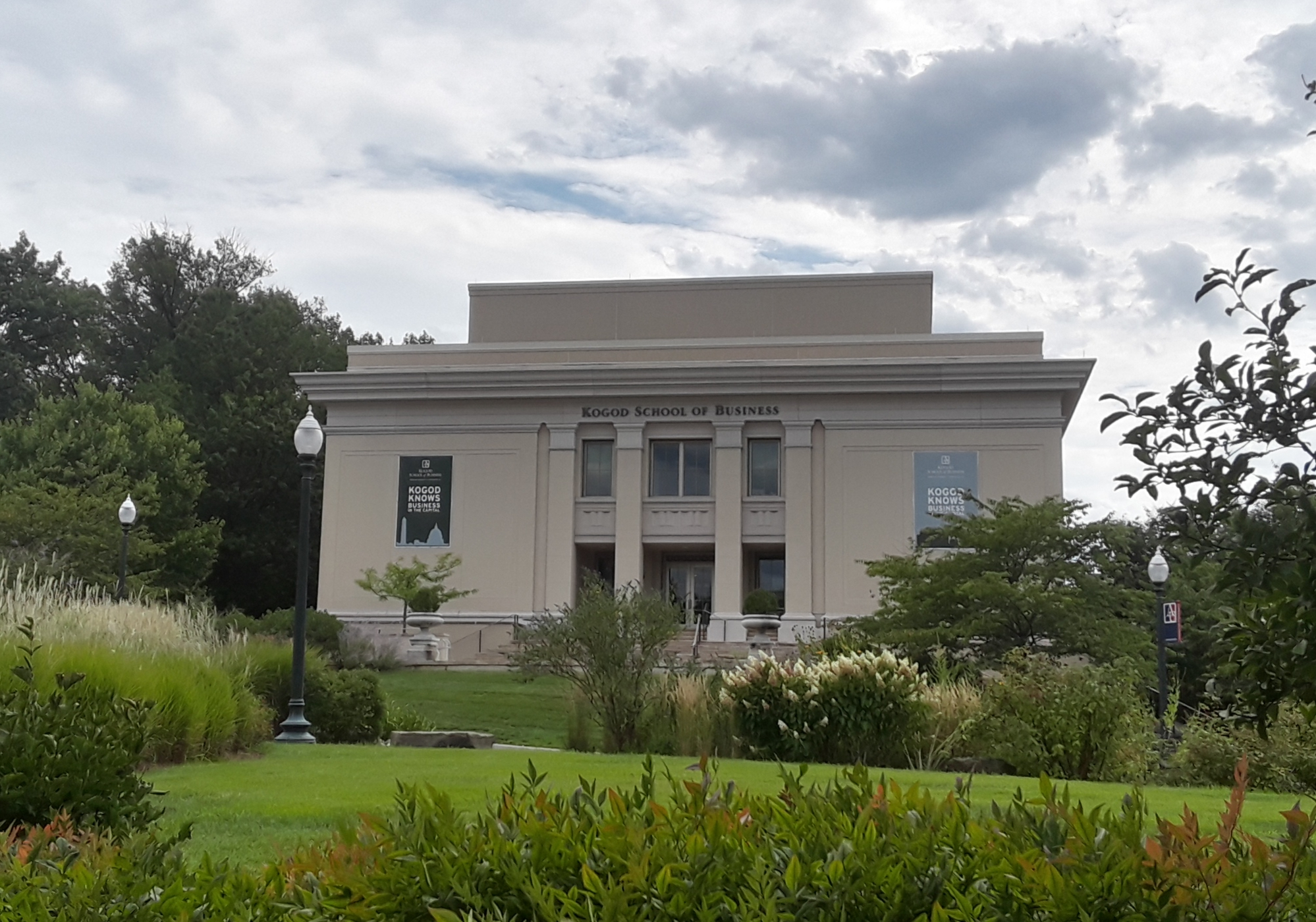 American University